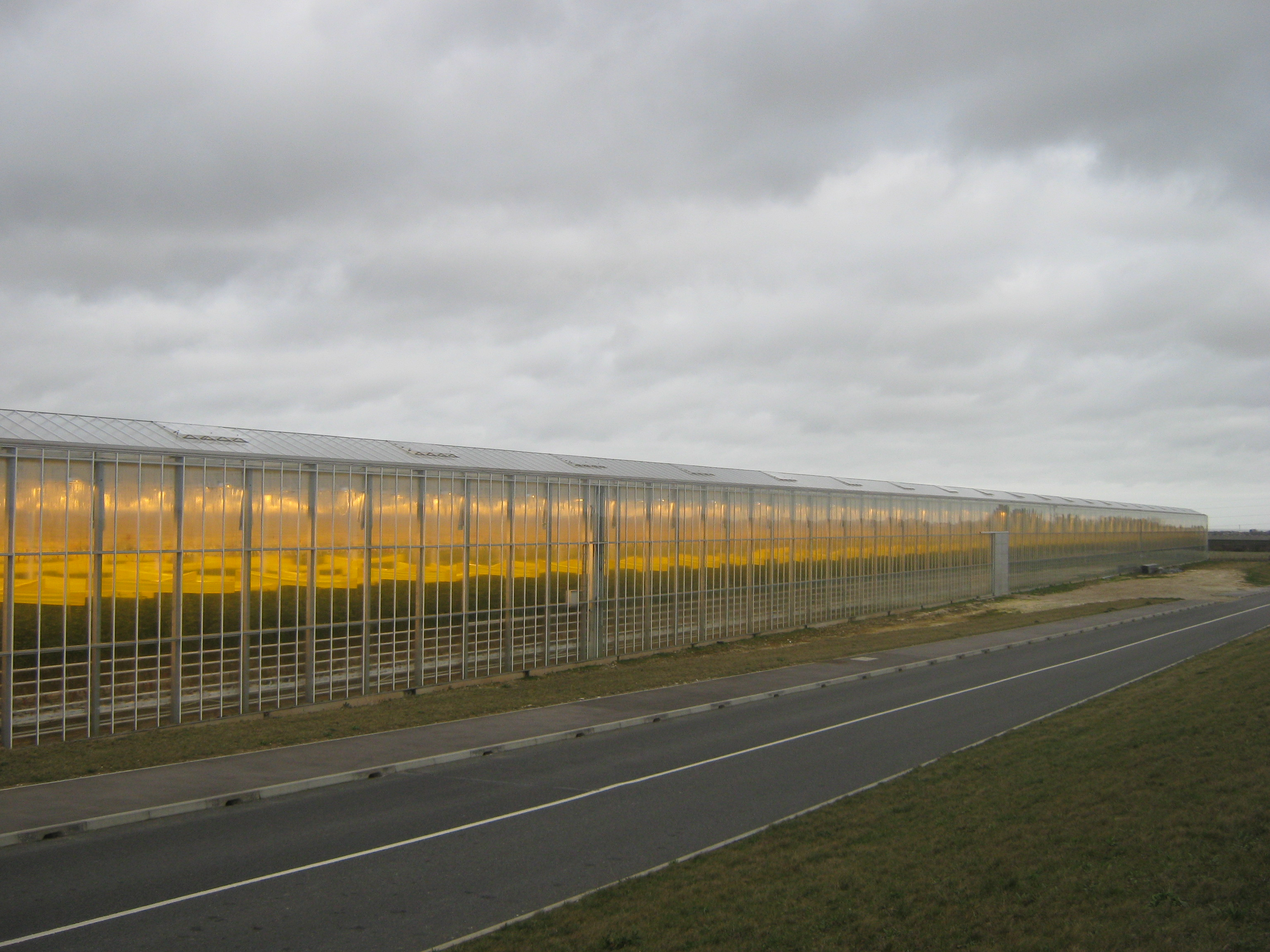 Thanet Earth Greenhouse and access road